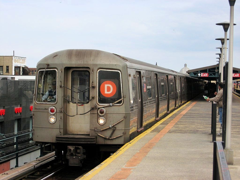 D train, led by car #2590, entering Bay Parkway on the West End Line heading to Manhattan.